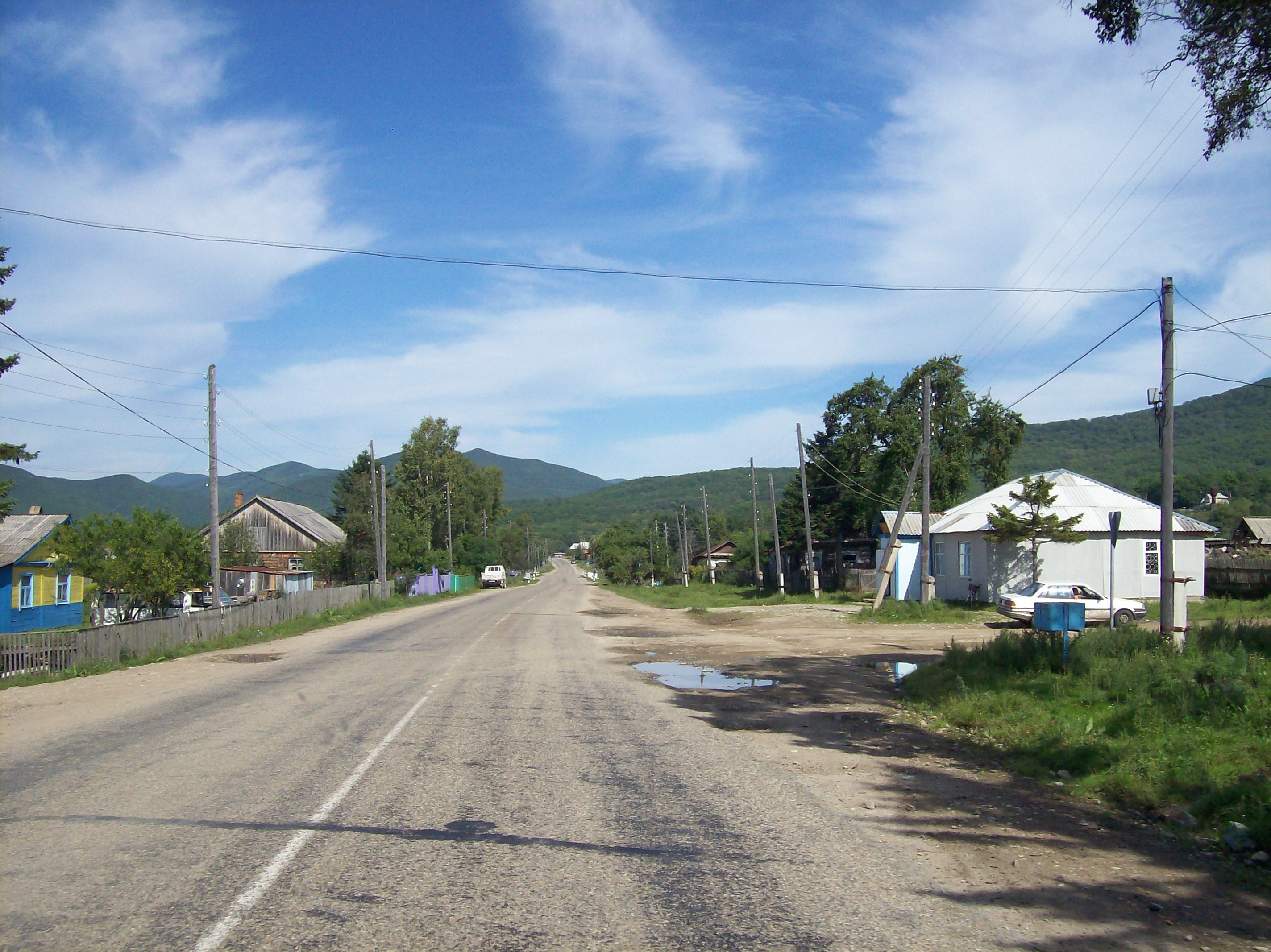 Село Пермское, Приморье